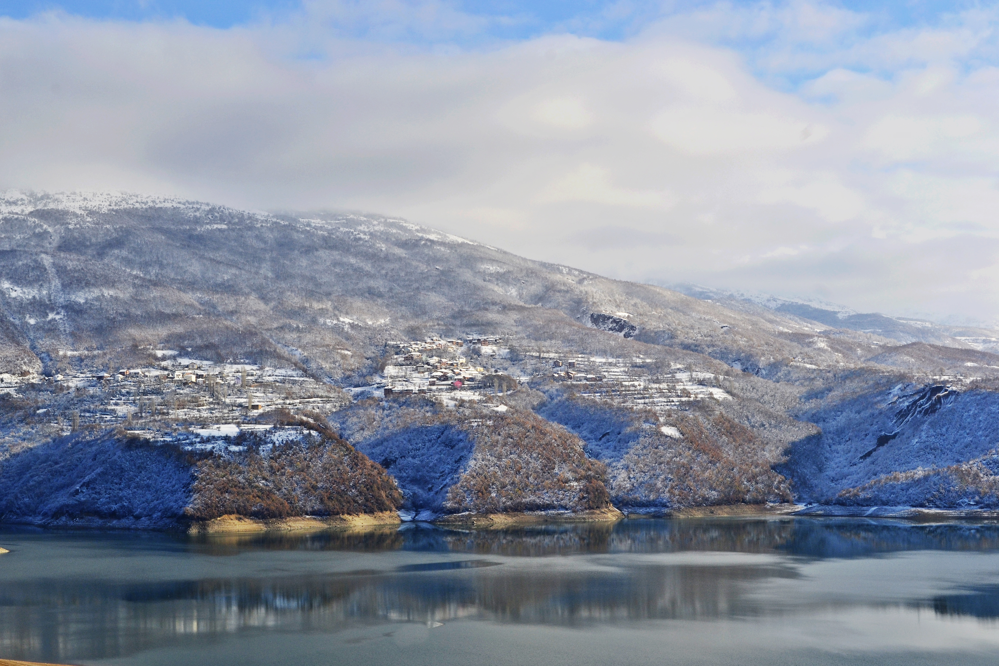 Debar Lake in winter